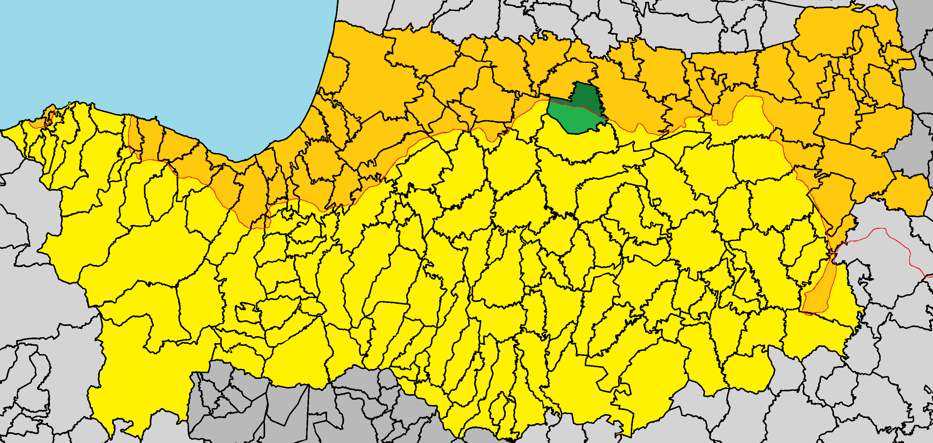 Mammari in Nicosia District (de jure).